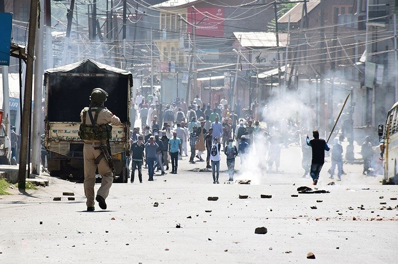 Police in Kashmir confronting violent protesters December 2018, the original image has been slightly cropped from the bottom to remove the watermark with the Author's name.